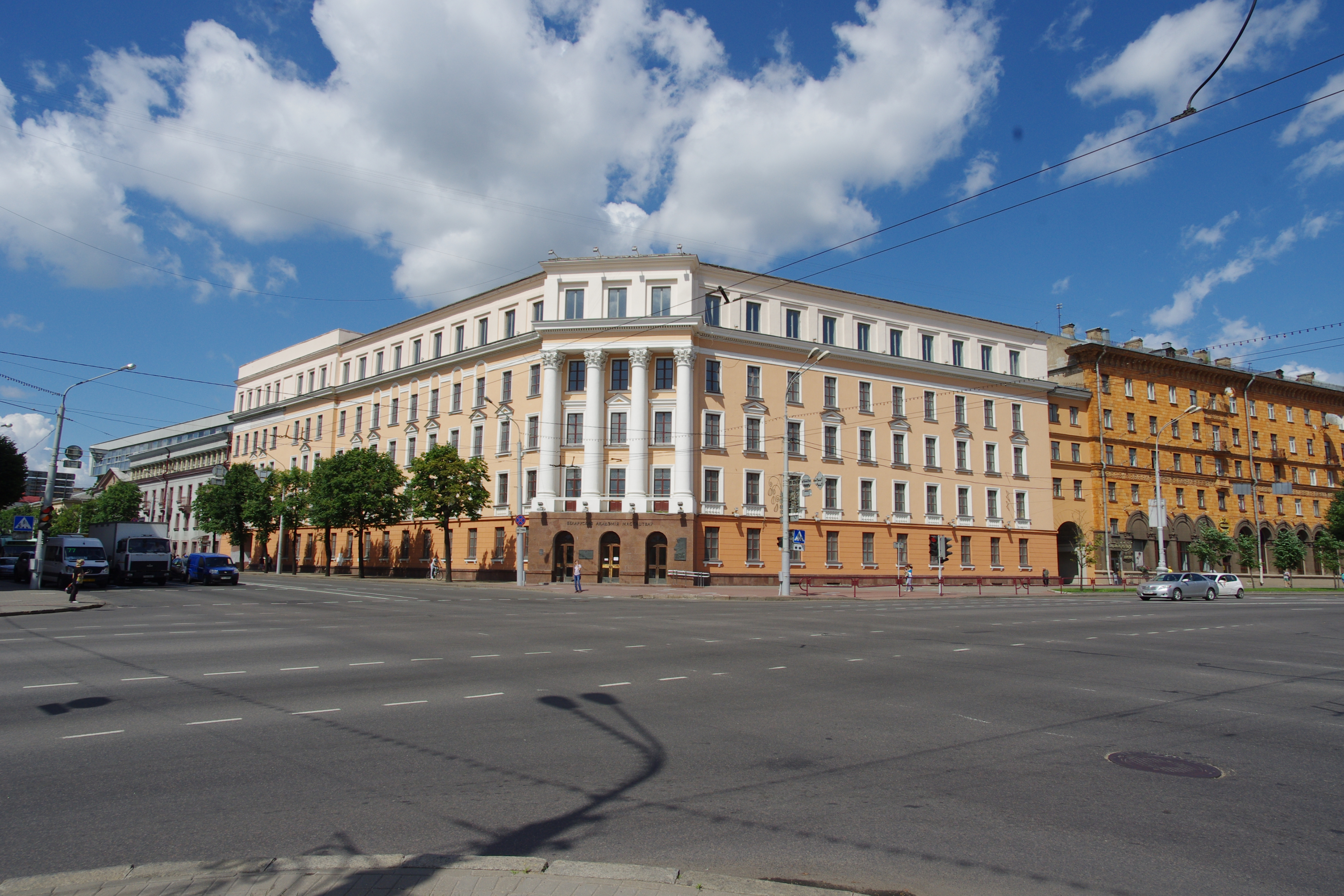 Belarusian State Academy of Arts built in 1953